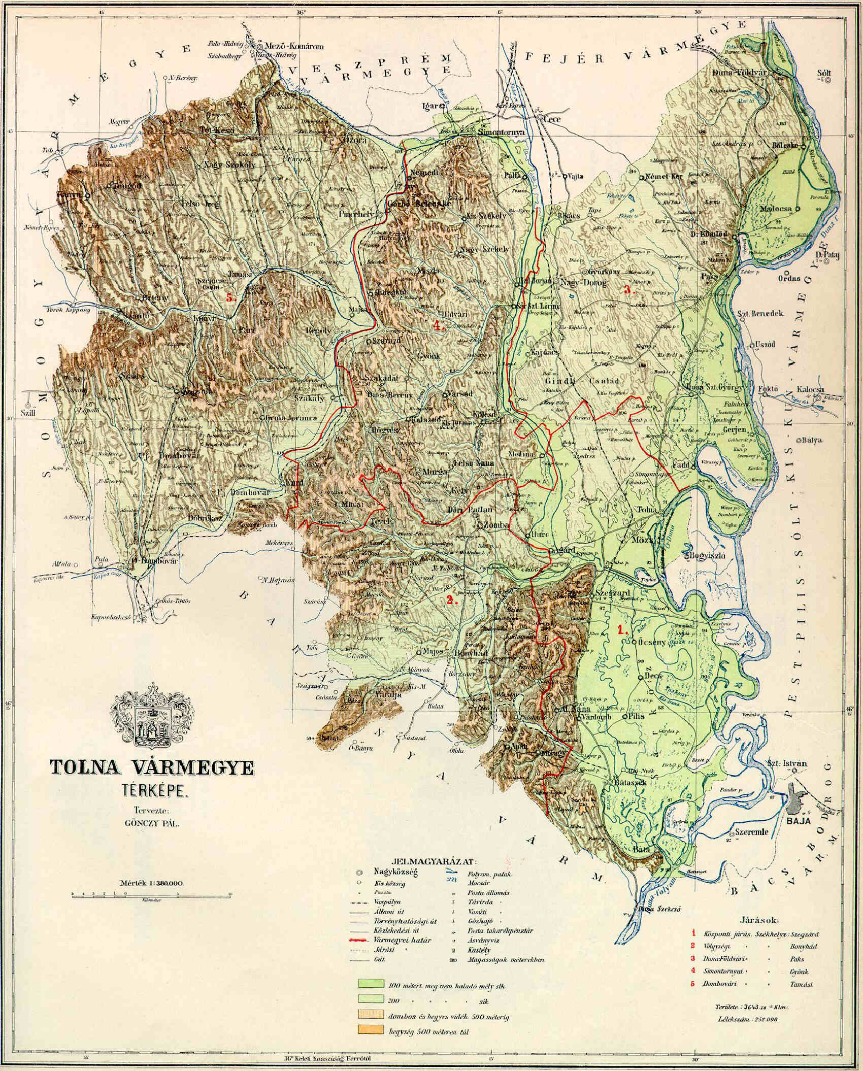 County of Tolna in the pre-Trianon Kingdom of Hungary. Komitat Tolna w Królestwie Węgier przed traktatem w Trianon.